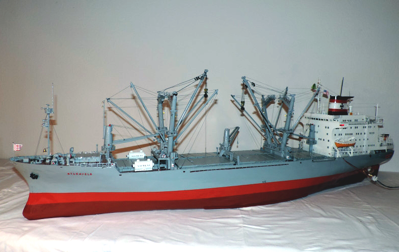 Model of Bremer DDG Hansa Heavy Lift Sturmfels, port side